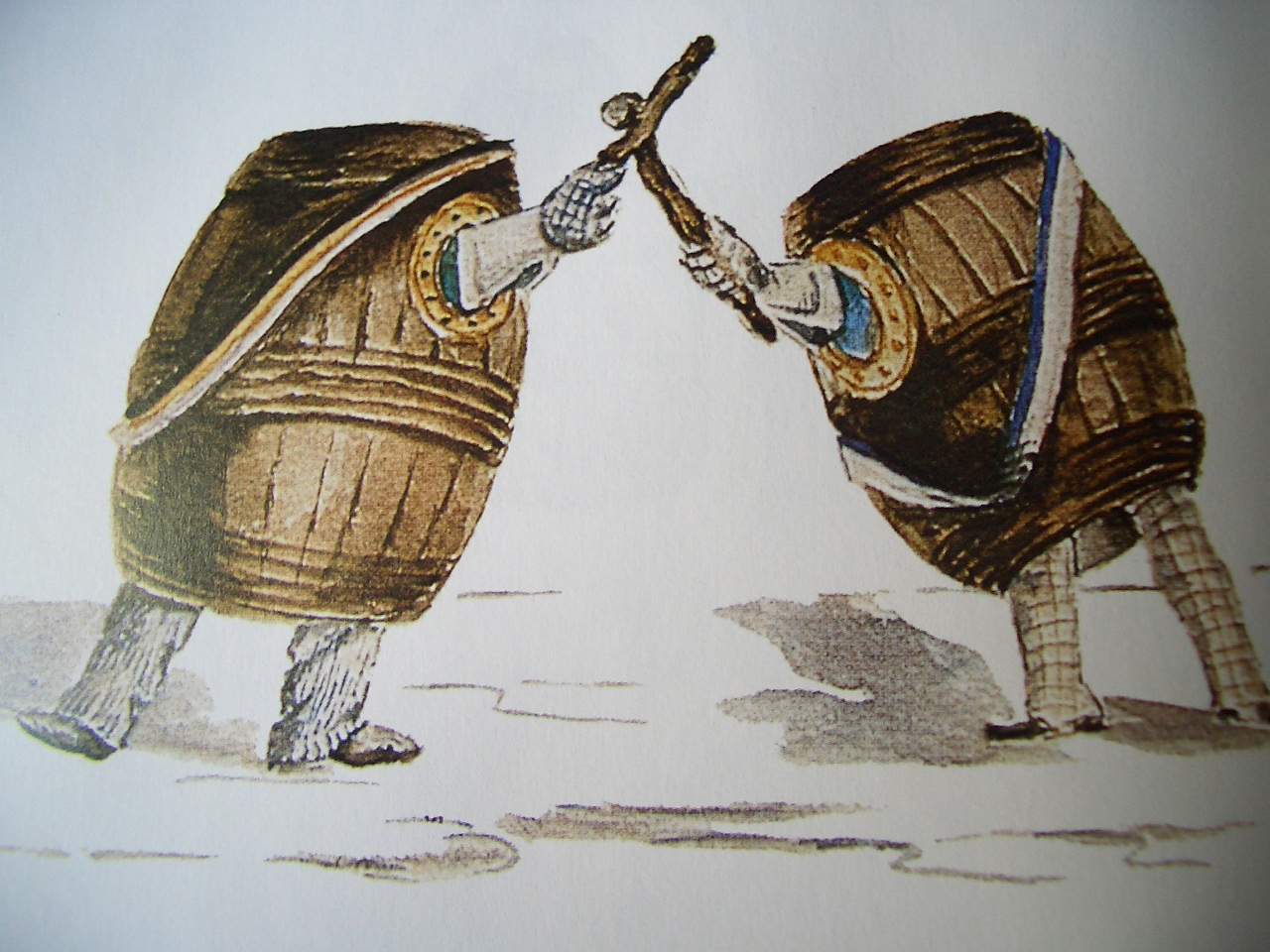 Watercolor caricature regarding the new safeguards taken during measures (Mensur) in those days. The participant on the left hand side wears the colors of Corps Suevia (IV) Tuebingen, the duellist on the right hand side is a member of the Corps Rhenania Tuebingen. The colors have faded with the age.